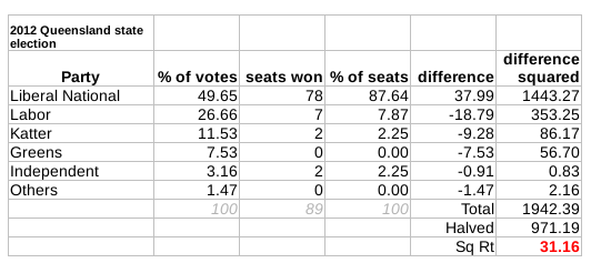 Gallagher Index for 2012 Queensland State Election